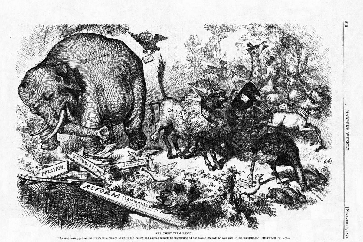 A braying ass, in a lion's coat, and "N.Y. Herald" collar, frightening animals in the forest: a giraffe ("N. Y. Tribune"), a unicorn ("N. Y. Times"), and an owl ("N. Y. World"); an ostrich, its head buried, represents "Temperance". An elephant, "The Republican Vote", stands near broken planks (Inflation, Repudiation, Home Rule, and Re-construction). Under the elephant, a pit labeled "Southern Claims. Chaos. Rum." A fox ("Democratic Party") has its forepaws on the plank "Reform. (Tammany. K.K.)" The title refers to U.S. Grant's possible bid for a third presidential term. This possibility was criticized by N.Y. Herald owner and editor James Gordon Bennett, Jr.